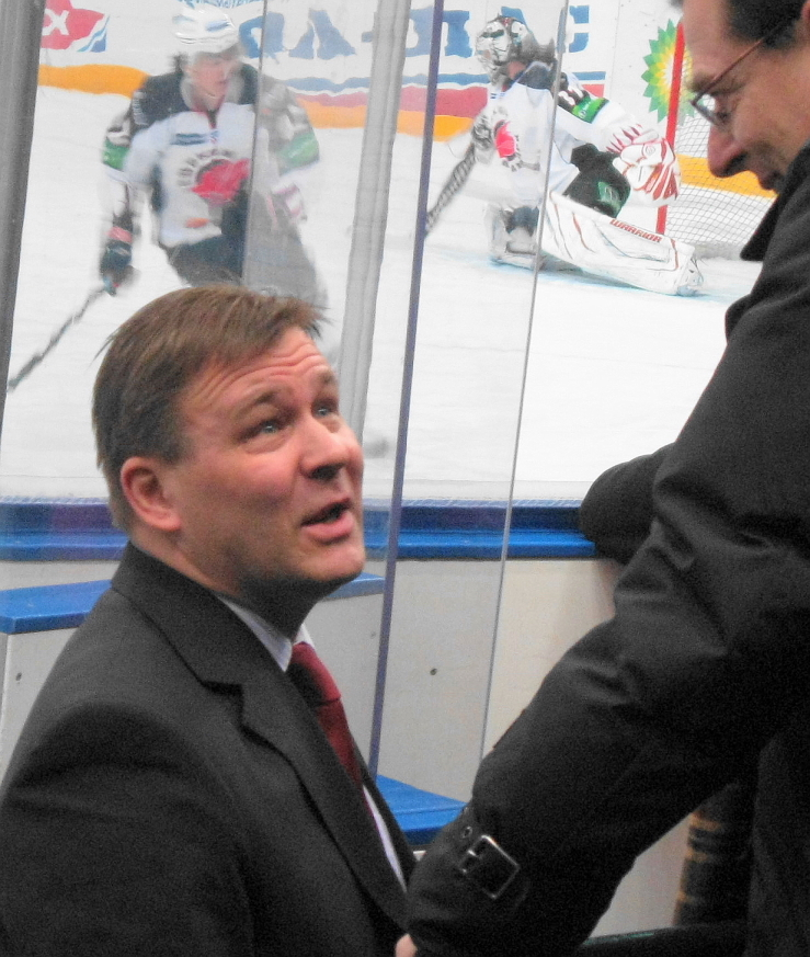 Raimo Summanen in Ice Palace (Peterburg, Russia)